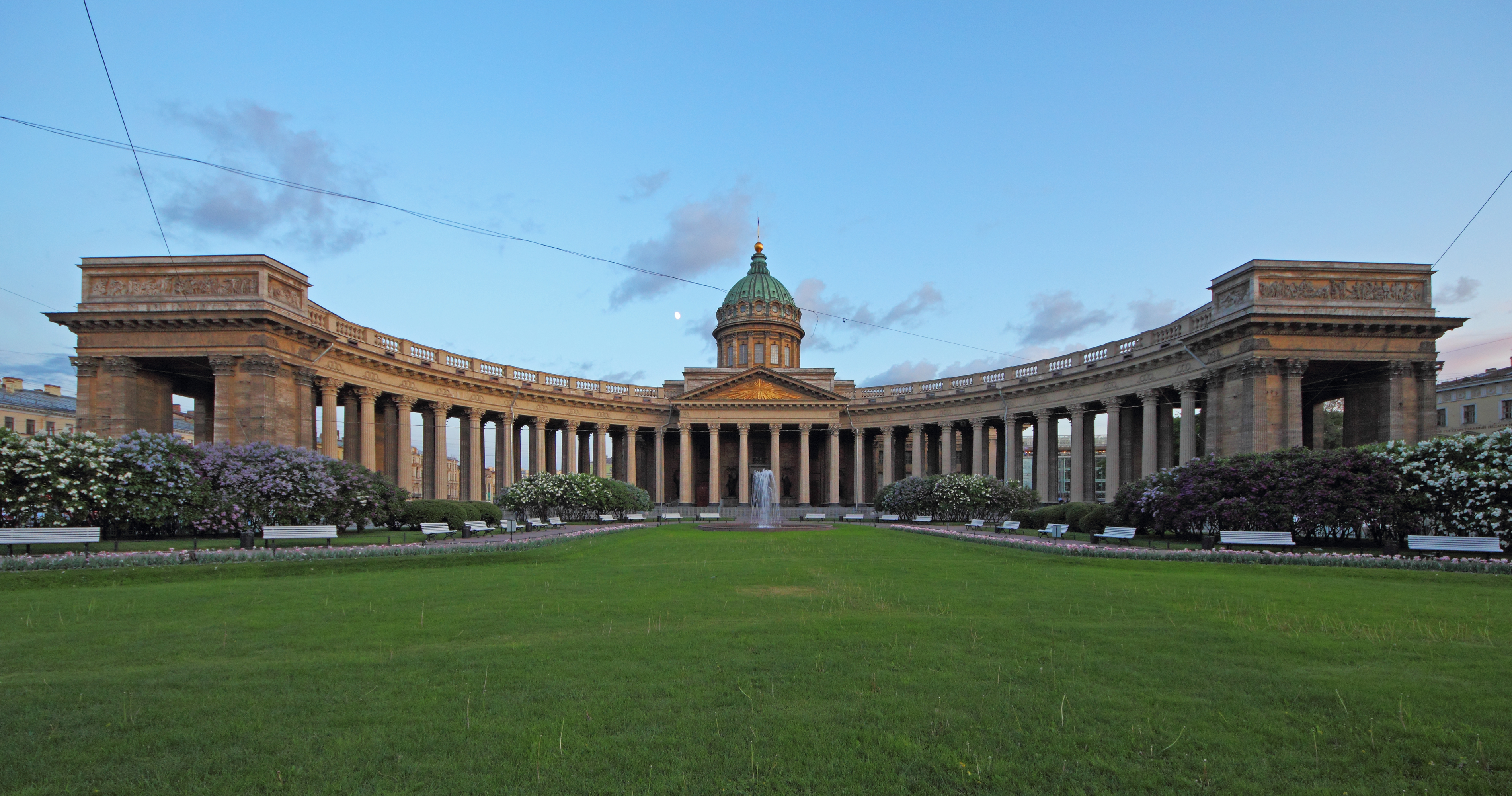 Saint Petersburg, Russia. Nevsky Avenue. Kazan Cathedral.